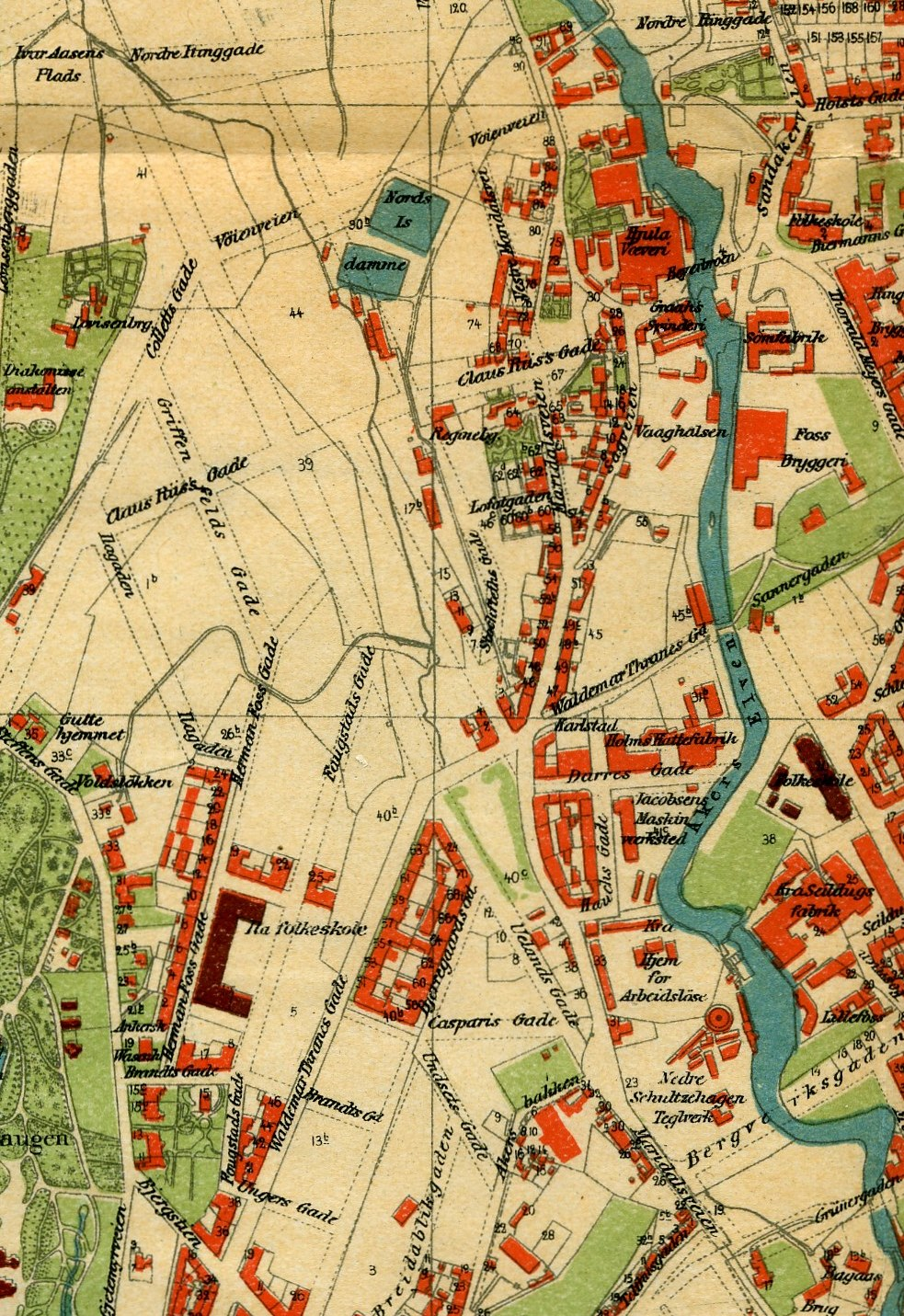 Map oof neighbourhood Ila, Oslo, 1917